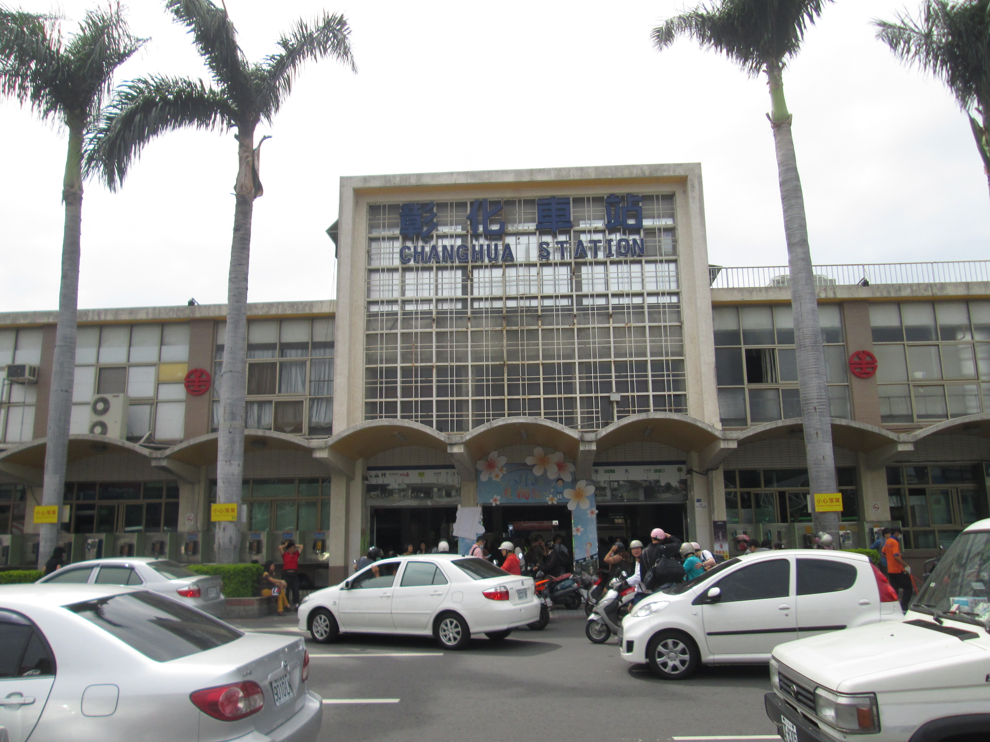 Busy traffic in front of Changhua Train Station.